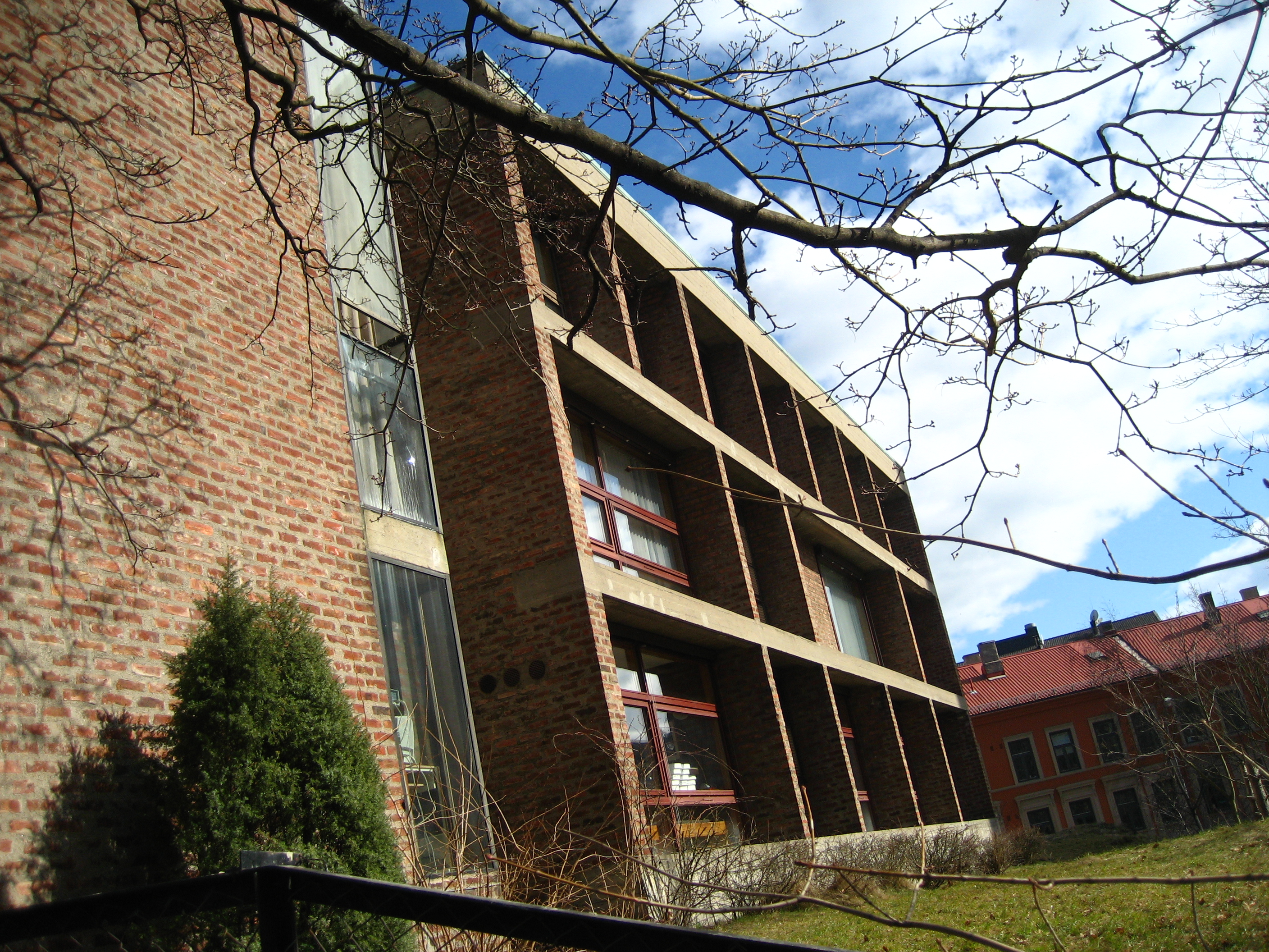 St. Hallvard's Church in Oslo.